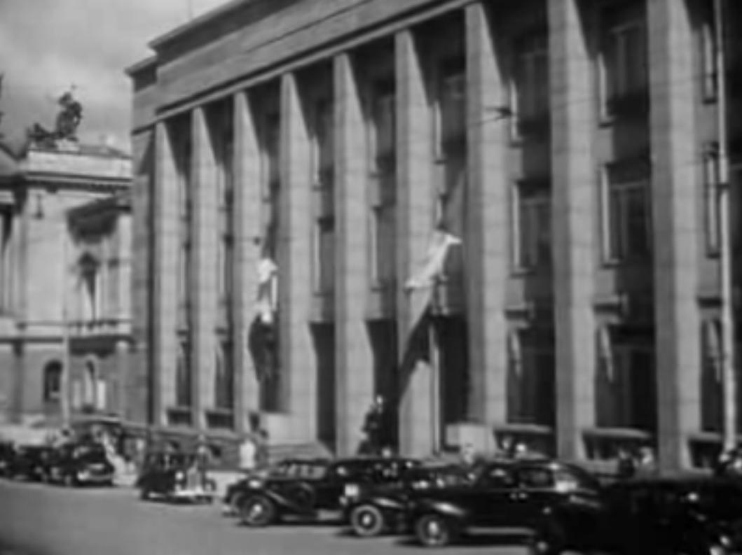 Prague stock building (later Federal Assembly and Nationa Museum) before 1948, Prague.